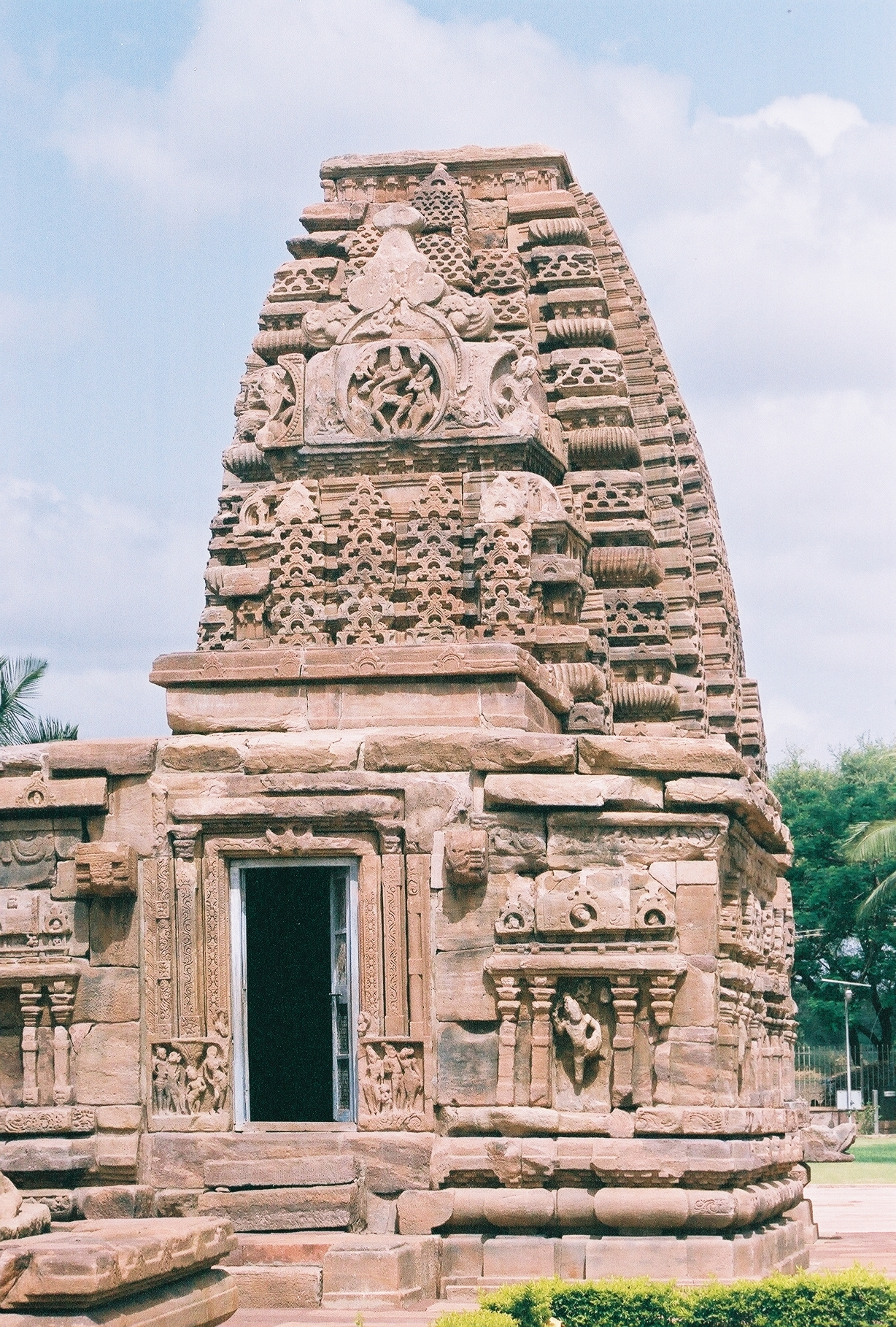 The Kasivisvanatha temple (also spelt Kashivishvanatha) at Pattadakal, a UNESCO world heritage site, was built during the reign of 9th century rule of Rashtrakuta Dynasty